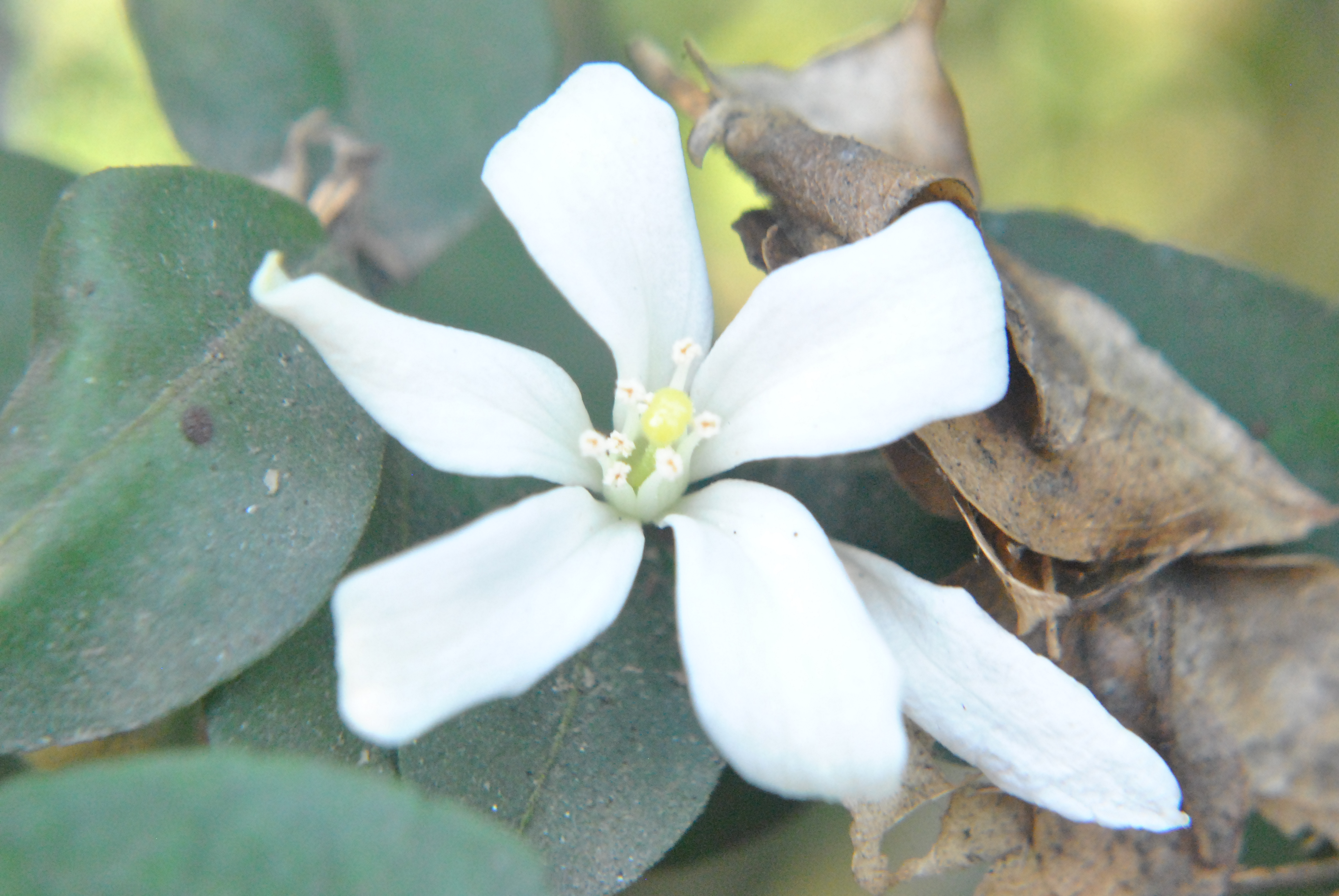 The flower of Murraya paniculata (কামিনী)is found in Bana Bithan,Kolkata,West Bengal,India.